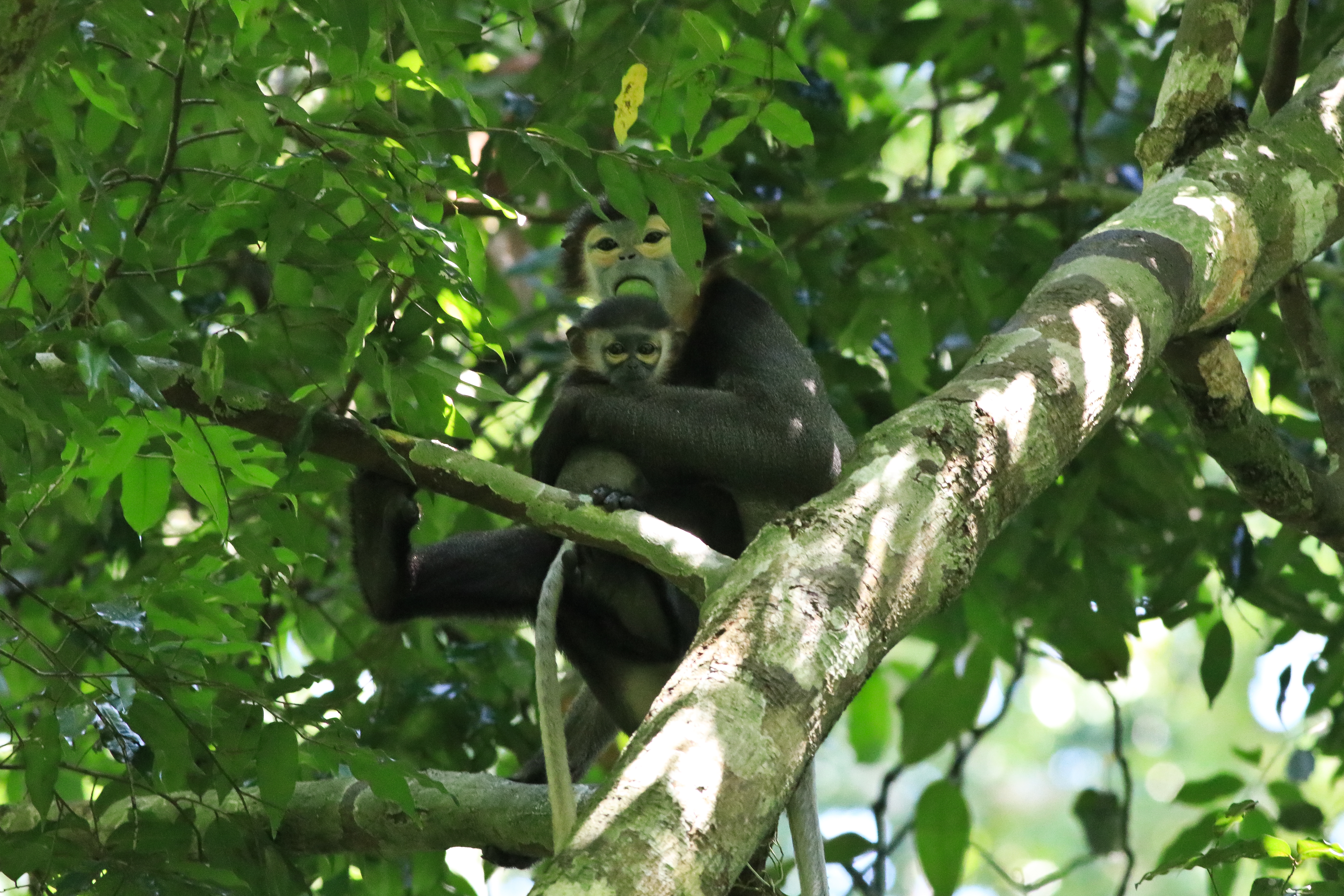 Black-shanked Douc from Cat Tein National Park